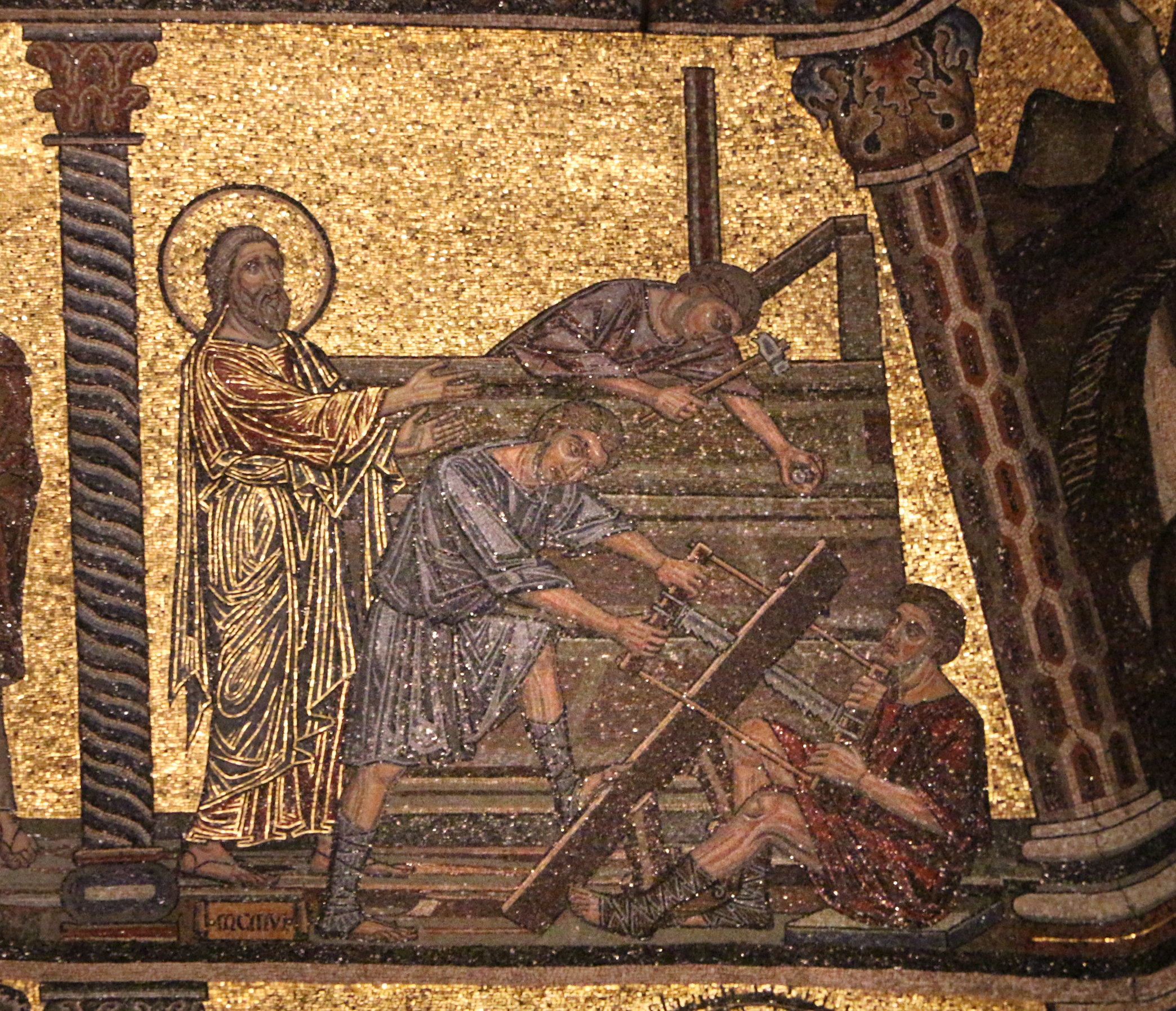 Genesis in the Florence Baptistry mosaics